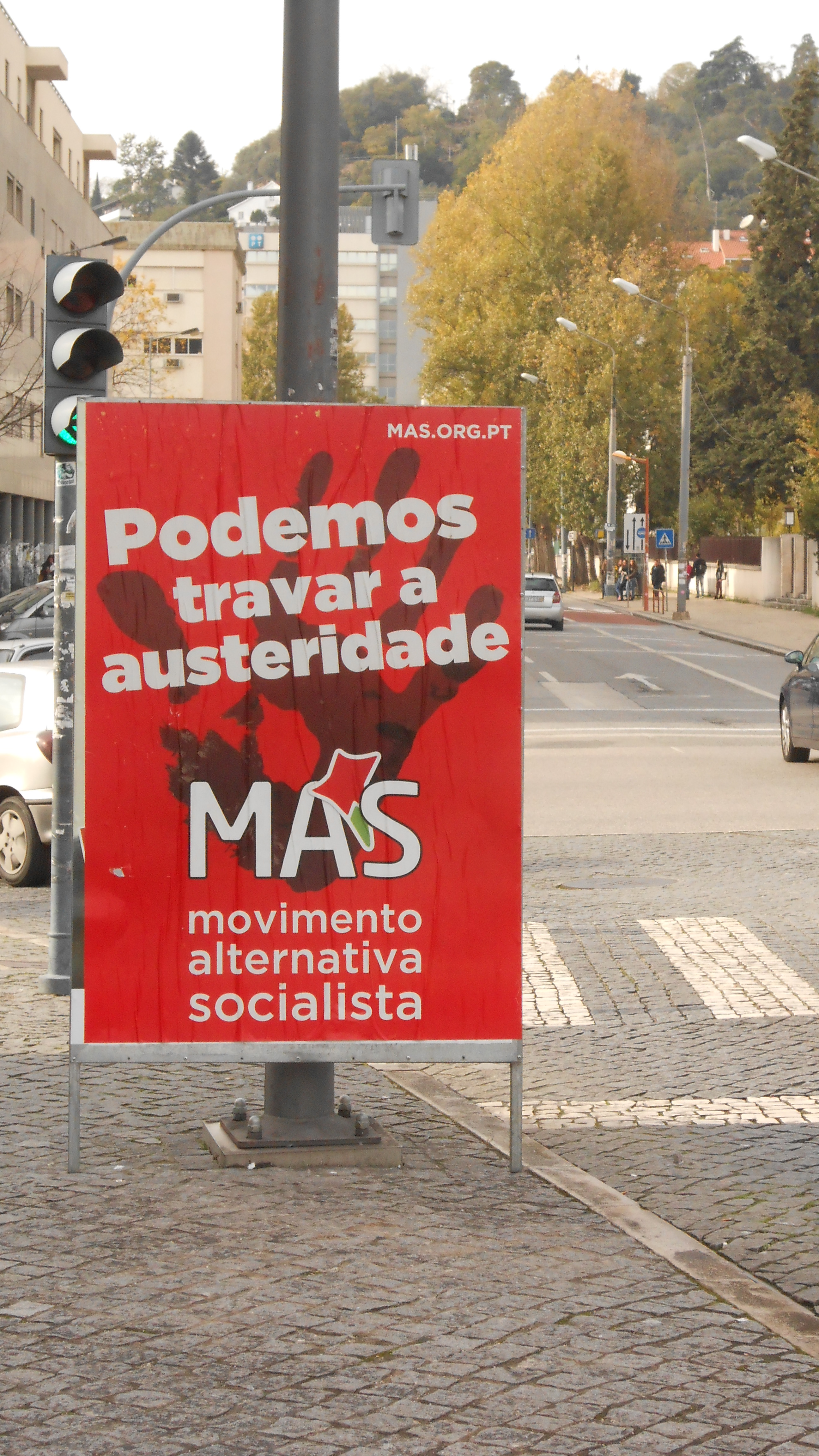 Portuguese leftwing party MAS advertising in front of the Dolce Vita shopping centre in Coimbra, Portugal.